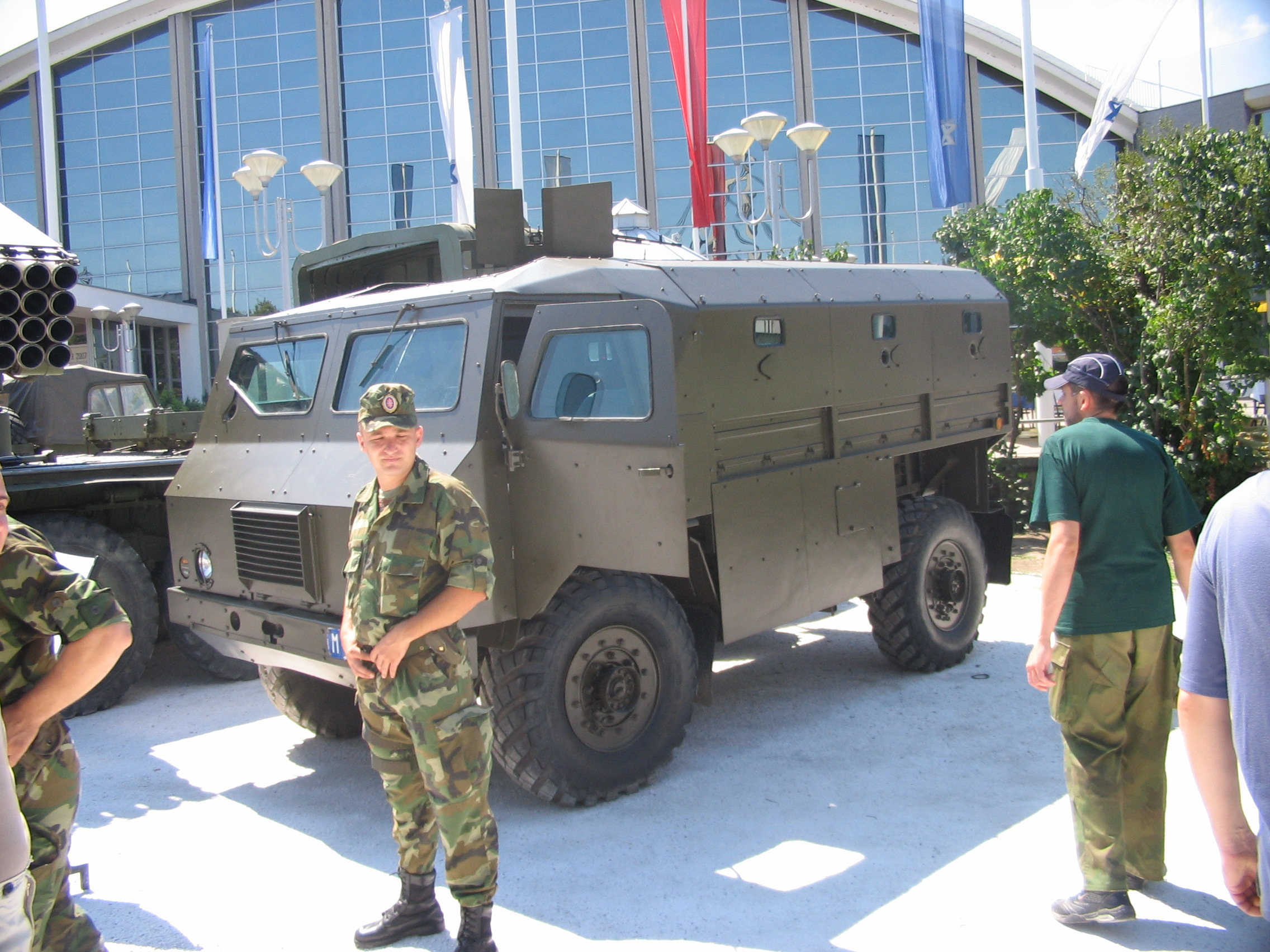 TAM-110 armoured light truck.